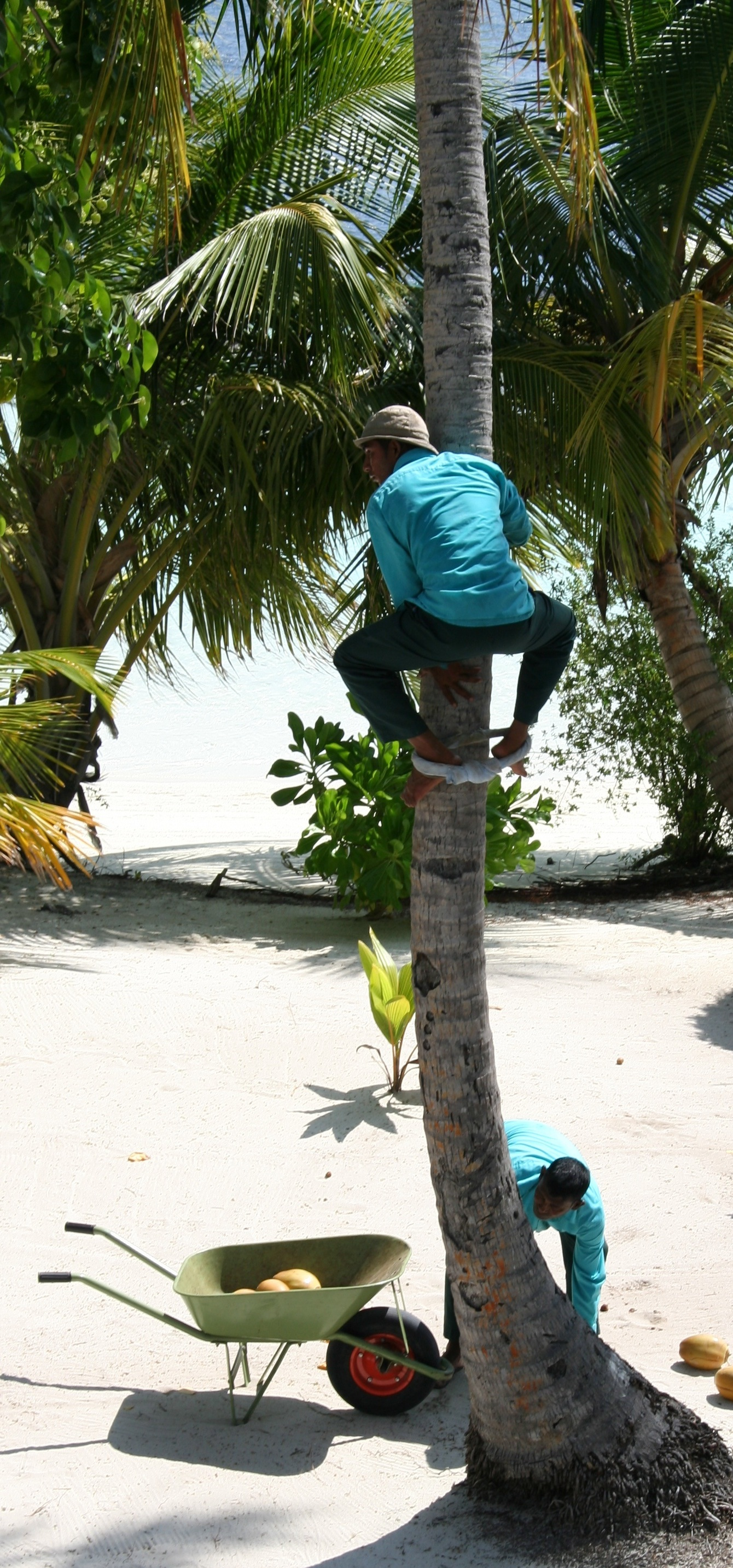 A man climbing a tree to harvest coconuts. Shot on the Maldives.